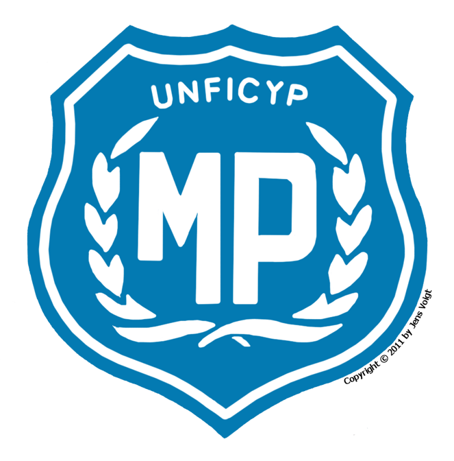 Logo used by UN Military Police on Cyprus